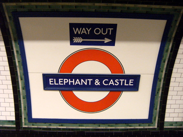 Elephant & Castle station, SE1 The Northern Line platforms of Elephant & Castle station.